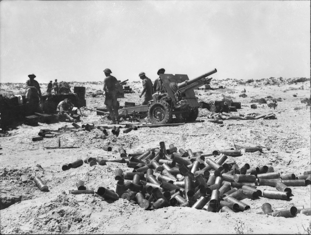 AWM Caption: 25-pounder guns of the 2/8th Field Regiment, Royal Australian Artillery, in action on the coastal sector near El Alamein, Egypt. They are being fired at a range of 9,800 yards on to enemy positions. As a reprisal shoot this troop fired 1,250 rounds in one and a half hours at rapidly changing ranges in reply to German artillery which fired 700 rounds in one hour. A pile of empty shell cases is seen in foreground.